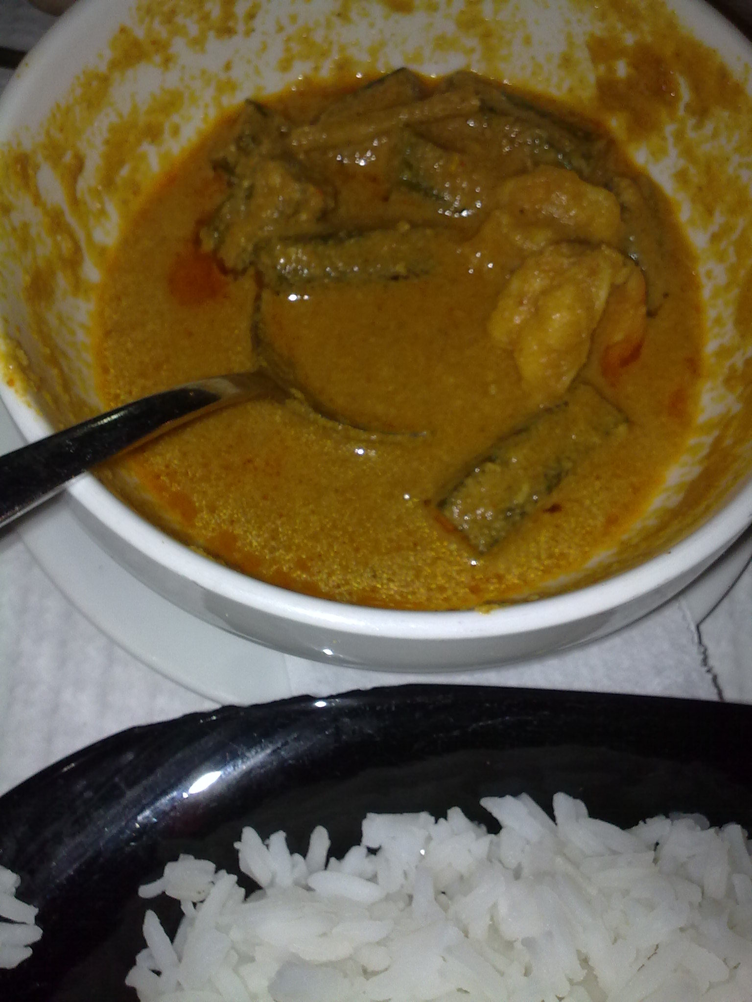 "Caril de camarão com quiabos", a shrimp curry dish from Goa and Mozambique.